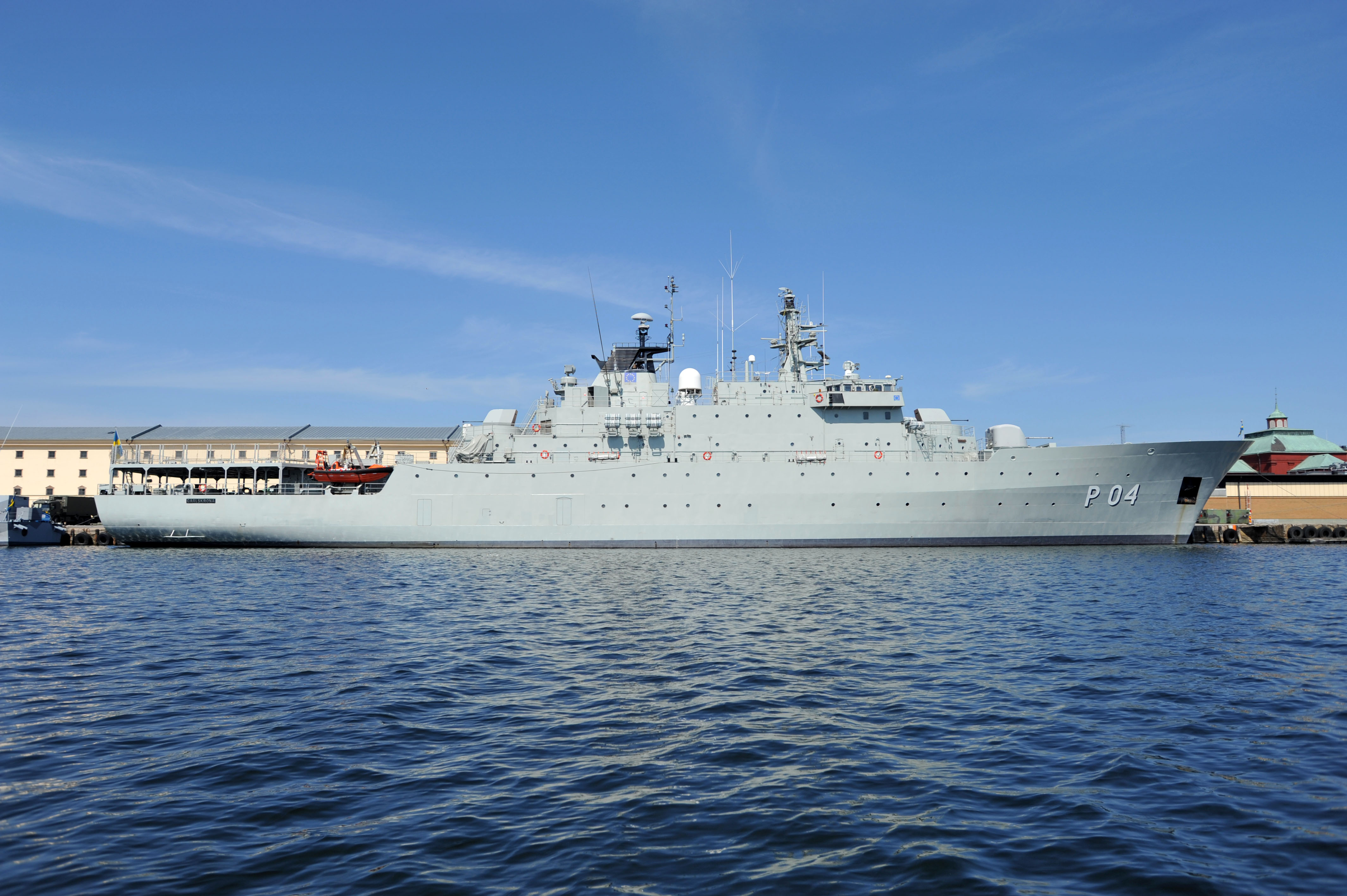 HMS Carlskrona is a support vessel in the Swedish navy. She was previously a minelayer